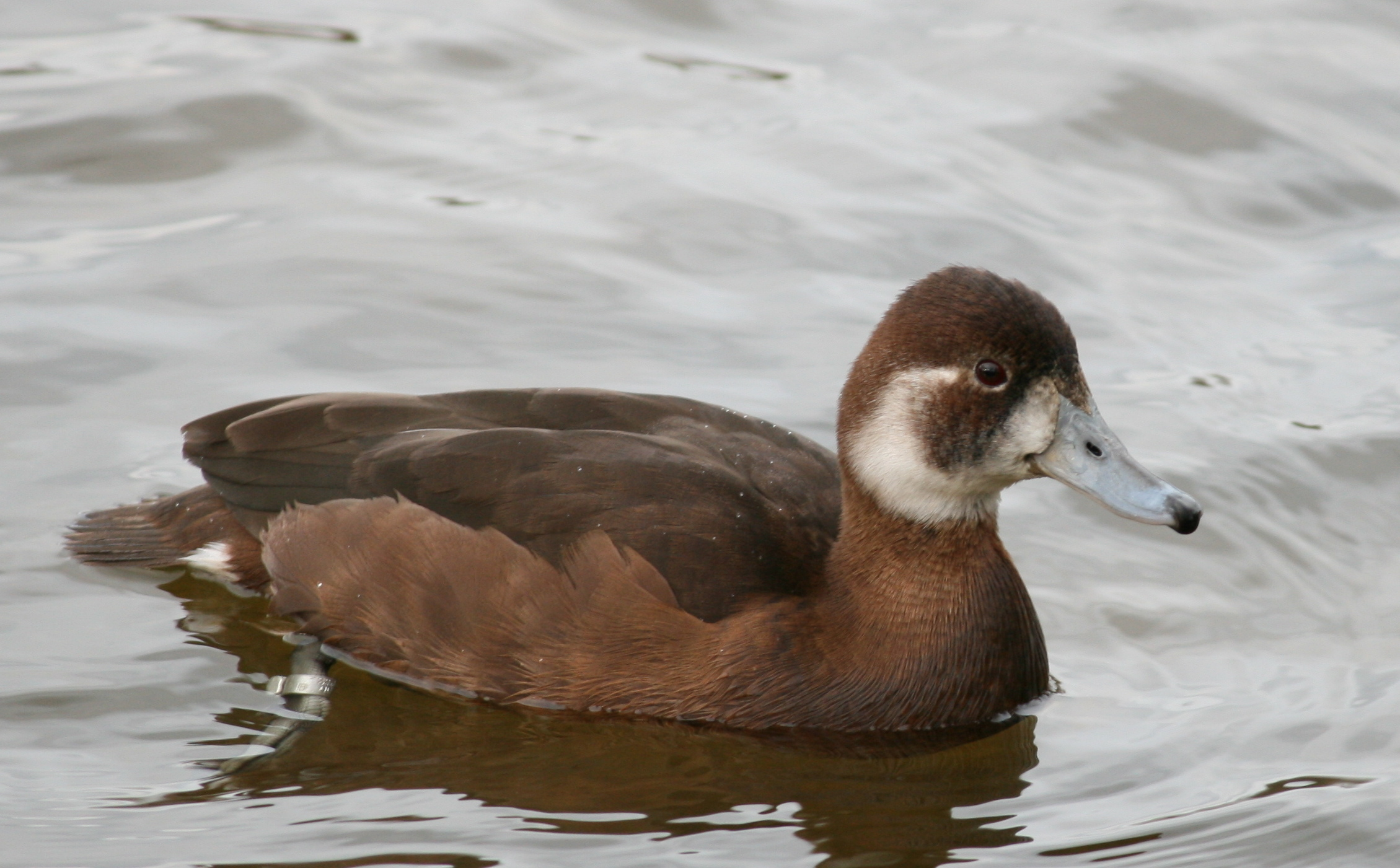 A female Netta erythrophthalma. Found in Berlin, Germany.